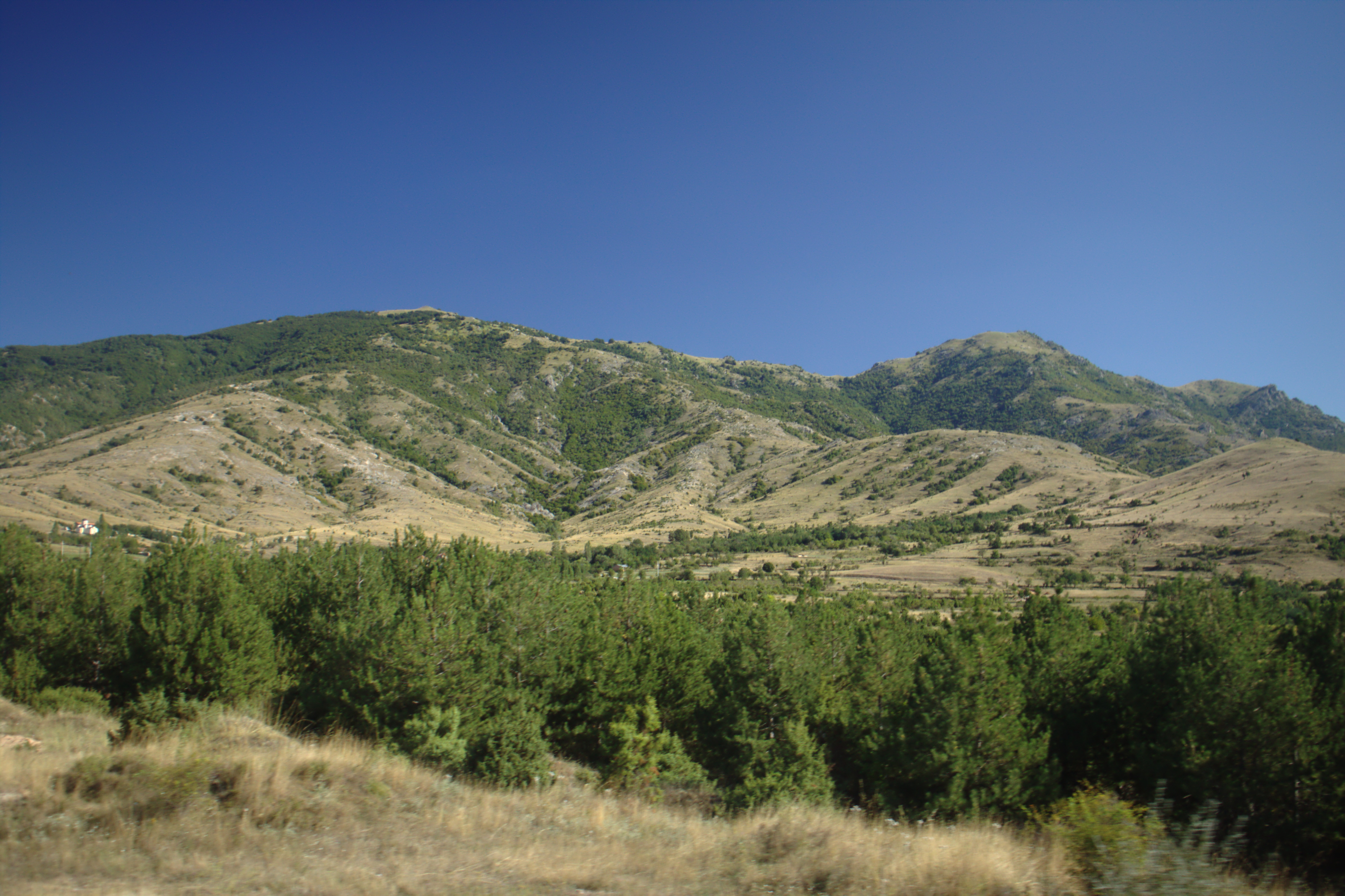 View of a valley east from the village of Pletvar near Prilep, Republic of Macedonia